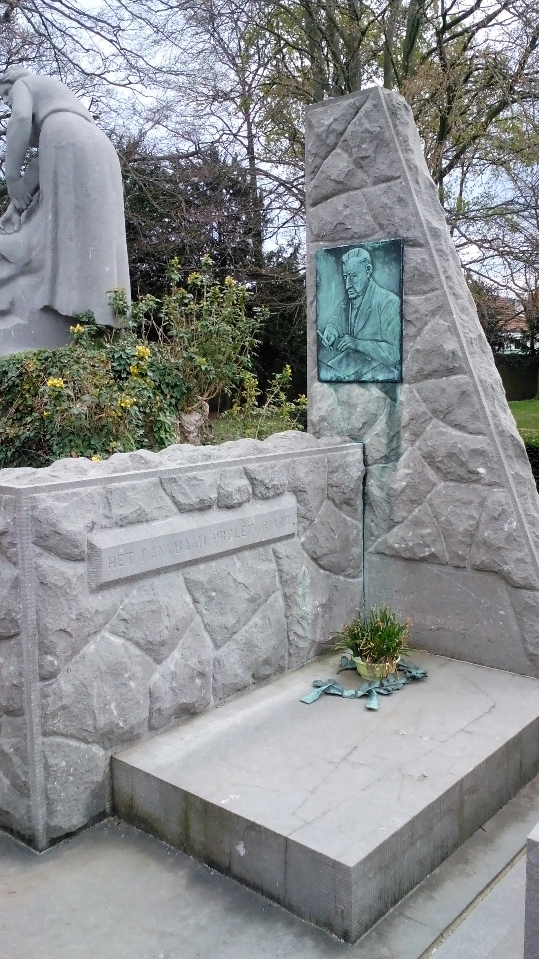 Tombstone Prosper Van Langendonck